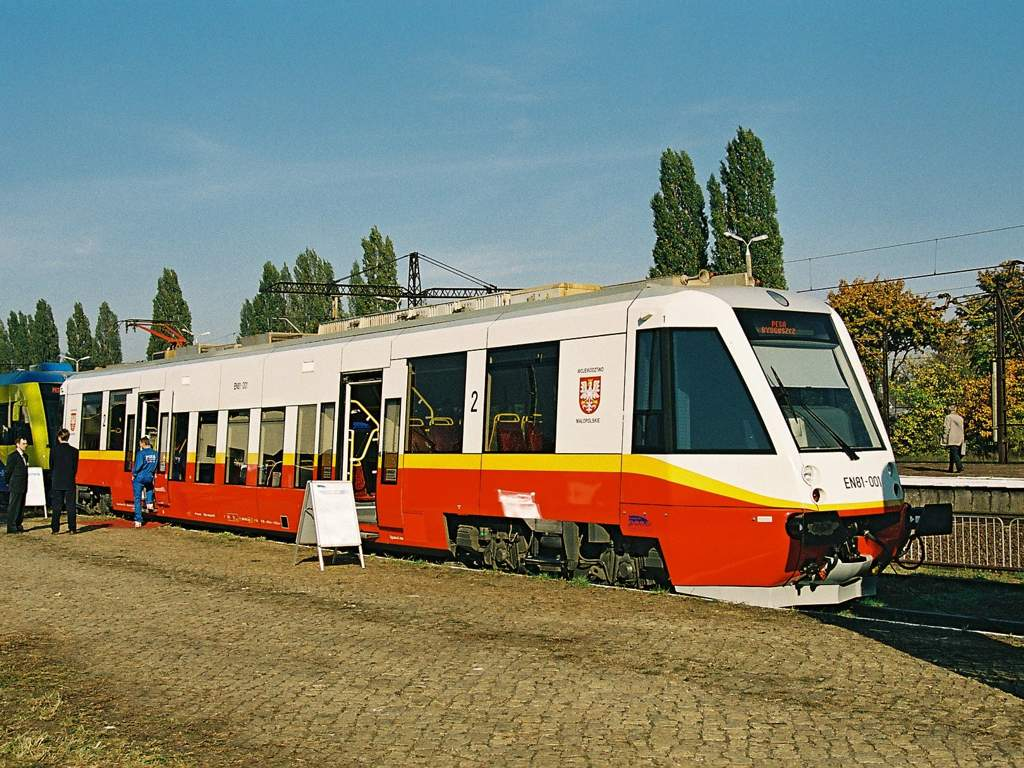 EN81-001 of Urząd Marszałkowski Województwa Małopolskiego; TRAKO trade fair, Gdańsk, Poland